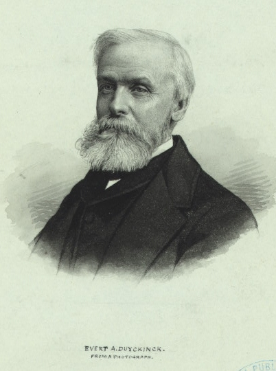 Evert Augustus Duyckinck, (1816-1878) , American author and publisher